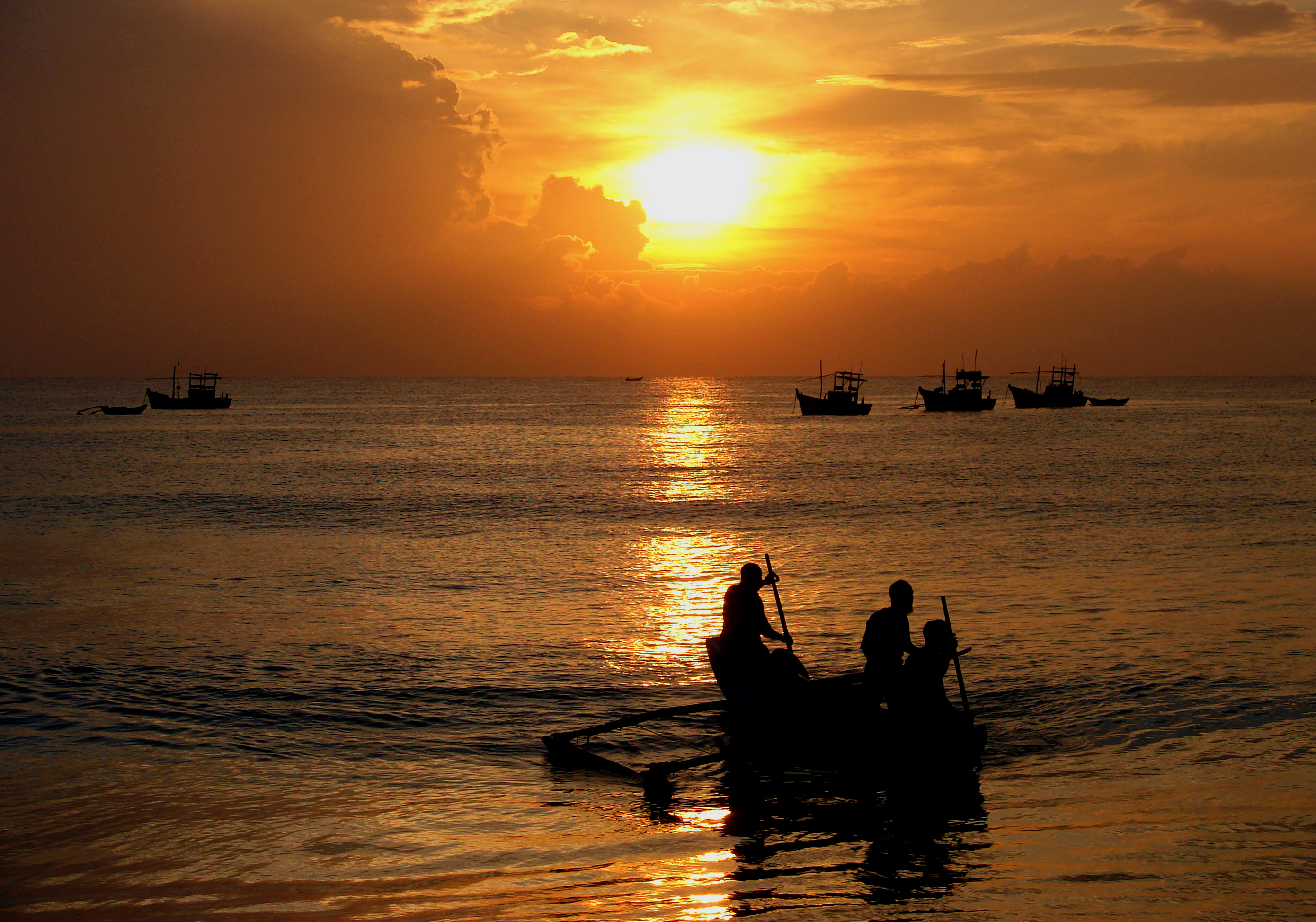 Fishermen return to seashore, Batticaloa.